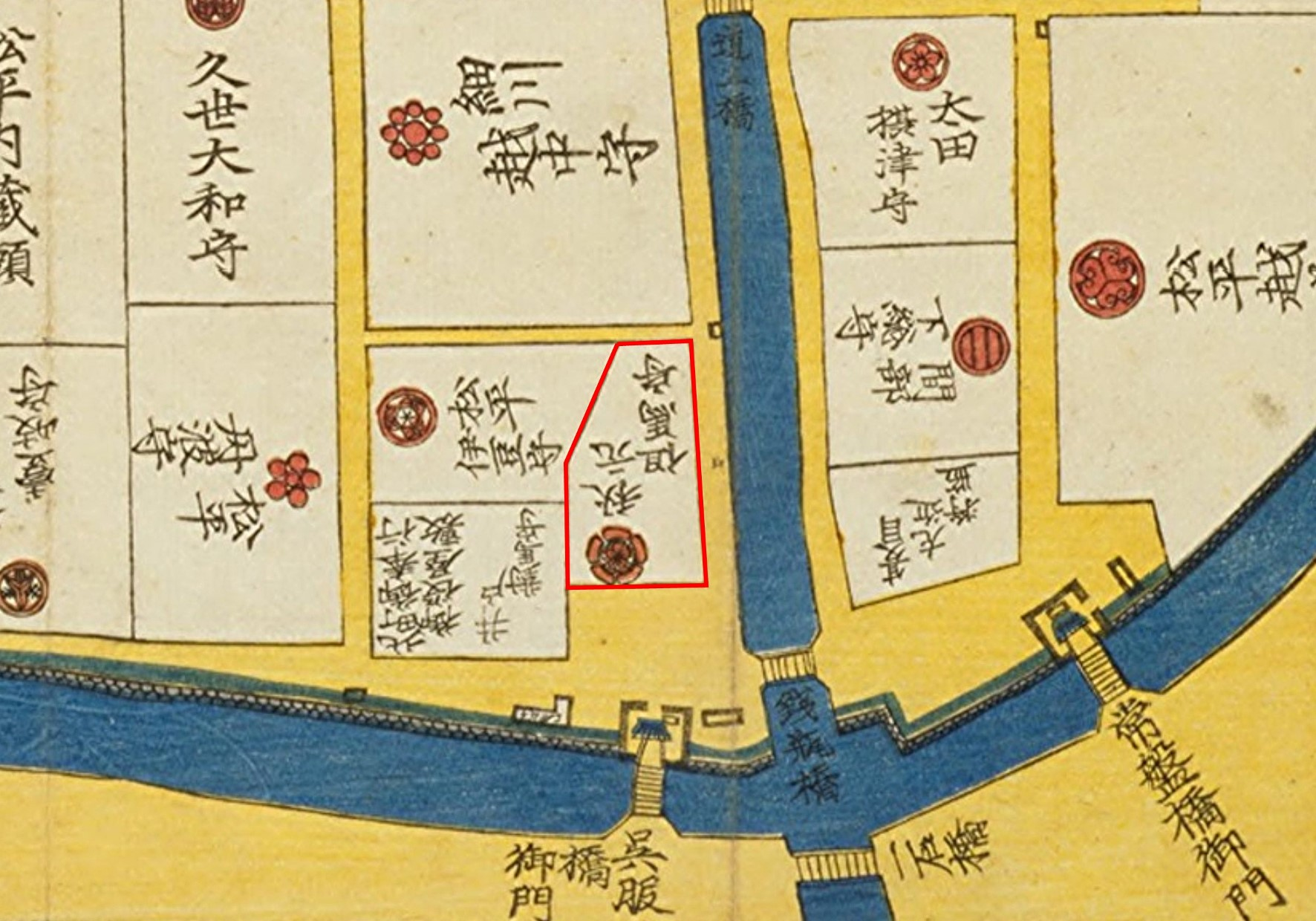 Residence of Akimoto clan at Edo